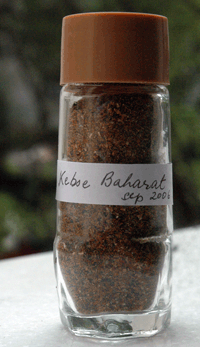 Home made Baharat / Kebse Mix